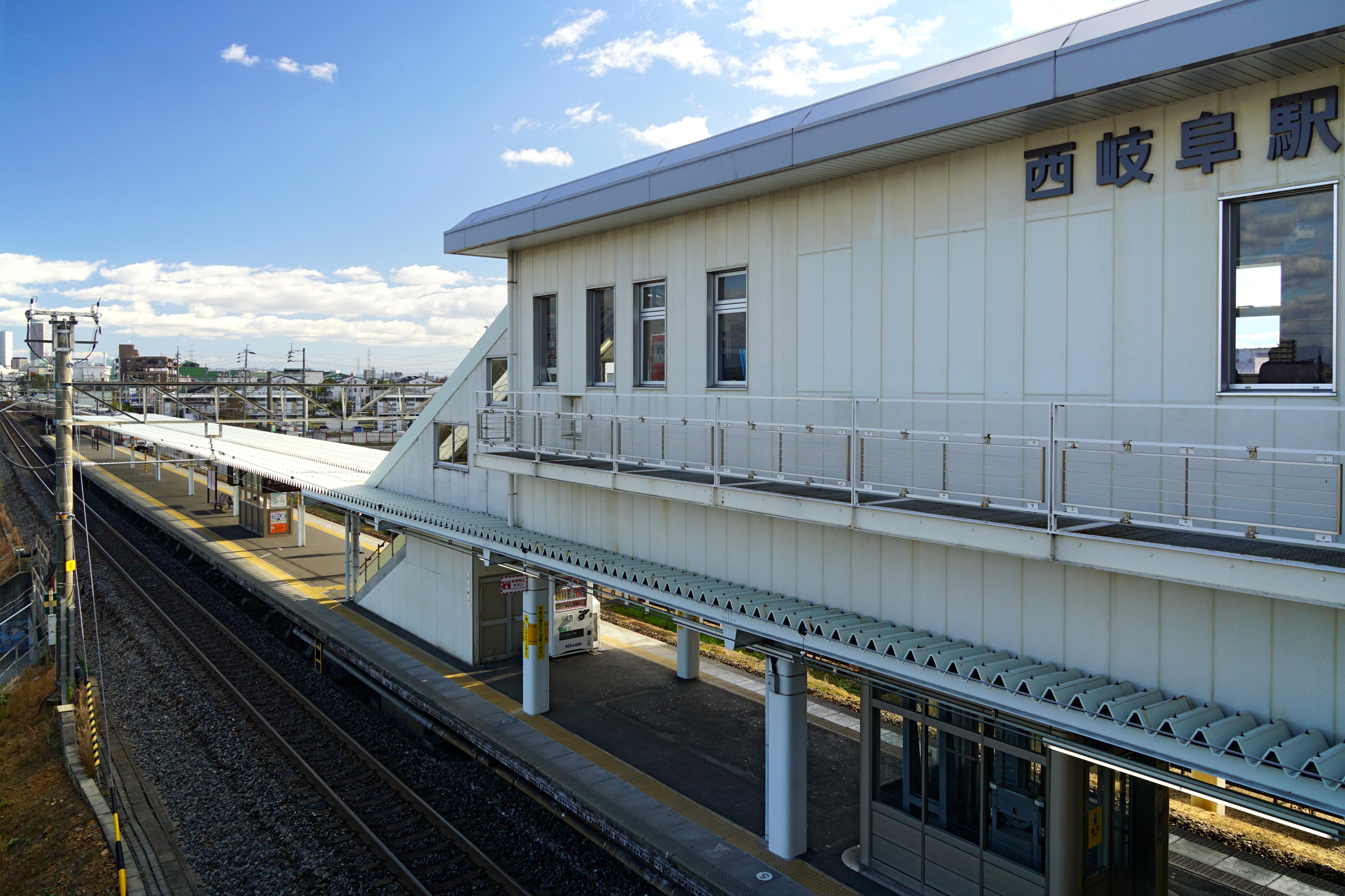 At Nishi-Gifu Station in Gifu, Gifu prefecture, Japan